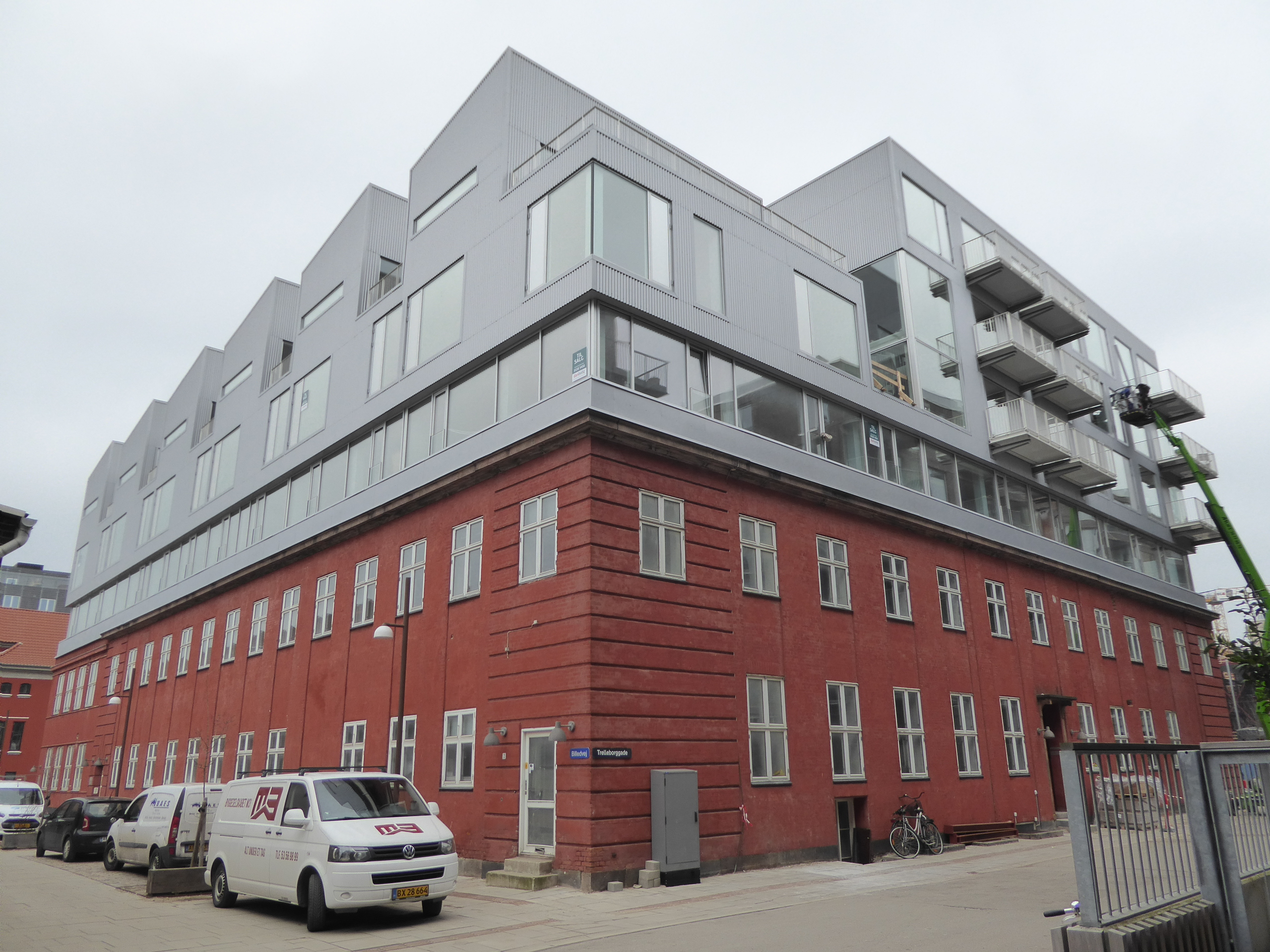 Apartment building at the corner of Billedvej and Trelleborggade in Nordhavn in Copenhagen. The old red building has gotten a few more floors.